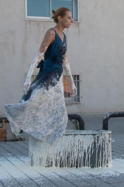 I Churned Anna stands, sits and lies in a large tub, dressed in a blue evening dress. The tub is filled with cream, which by her movements is churned into butter.